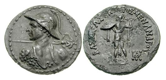 Coin of Menander I.